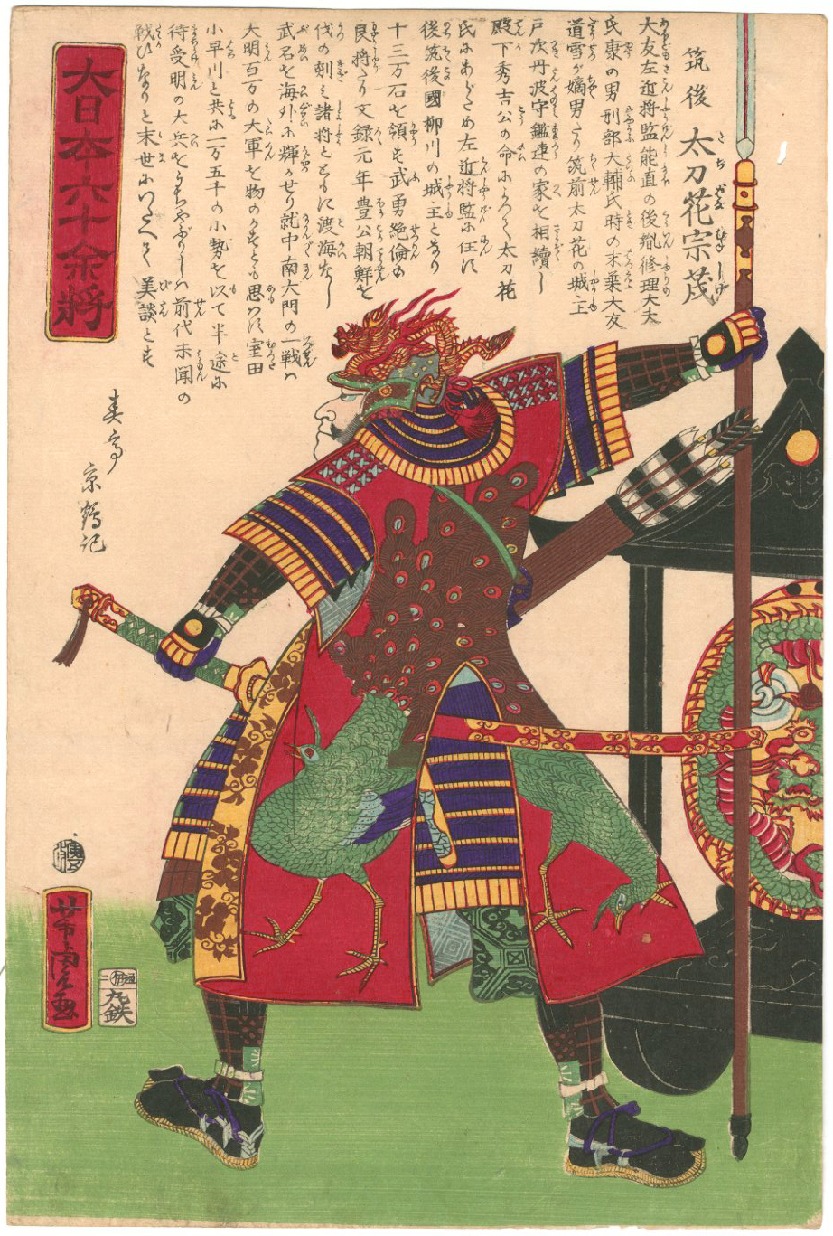 Tachibana Muneshige with his Choken taken from an original print